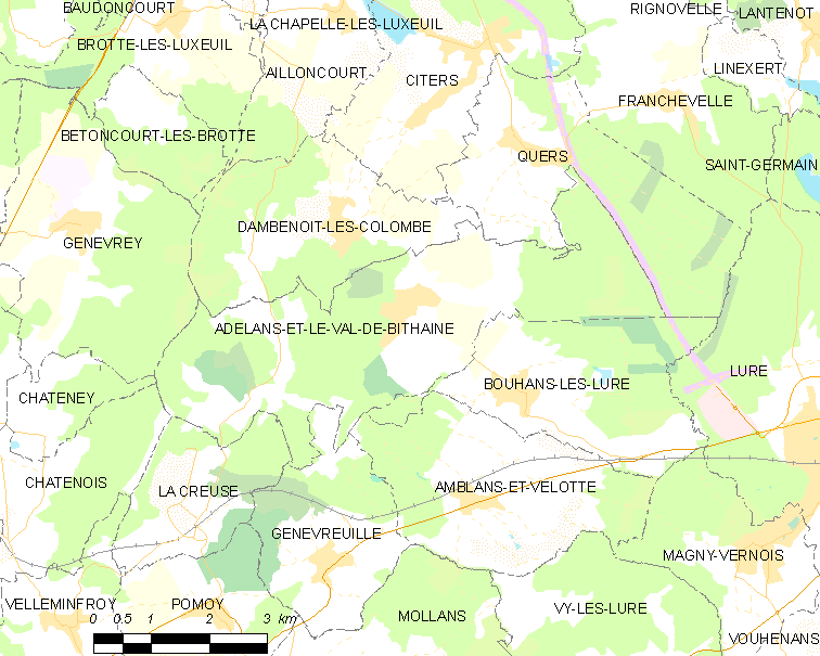 Map of French municipality